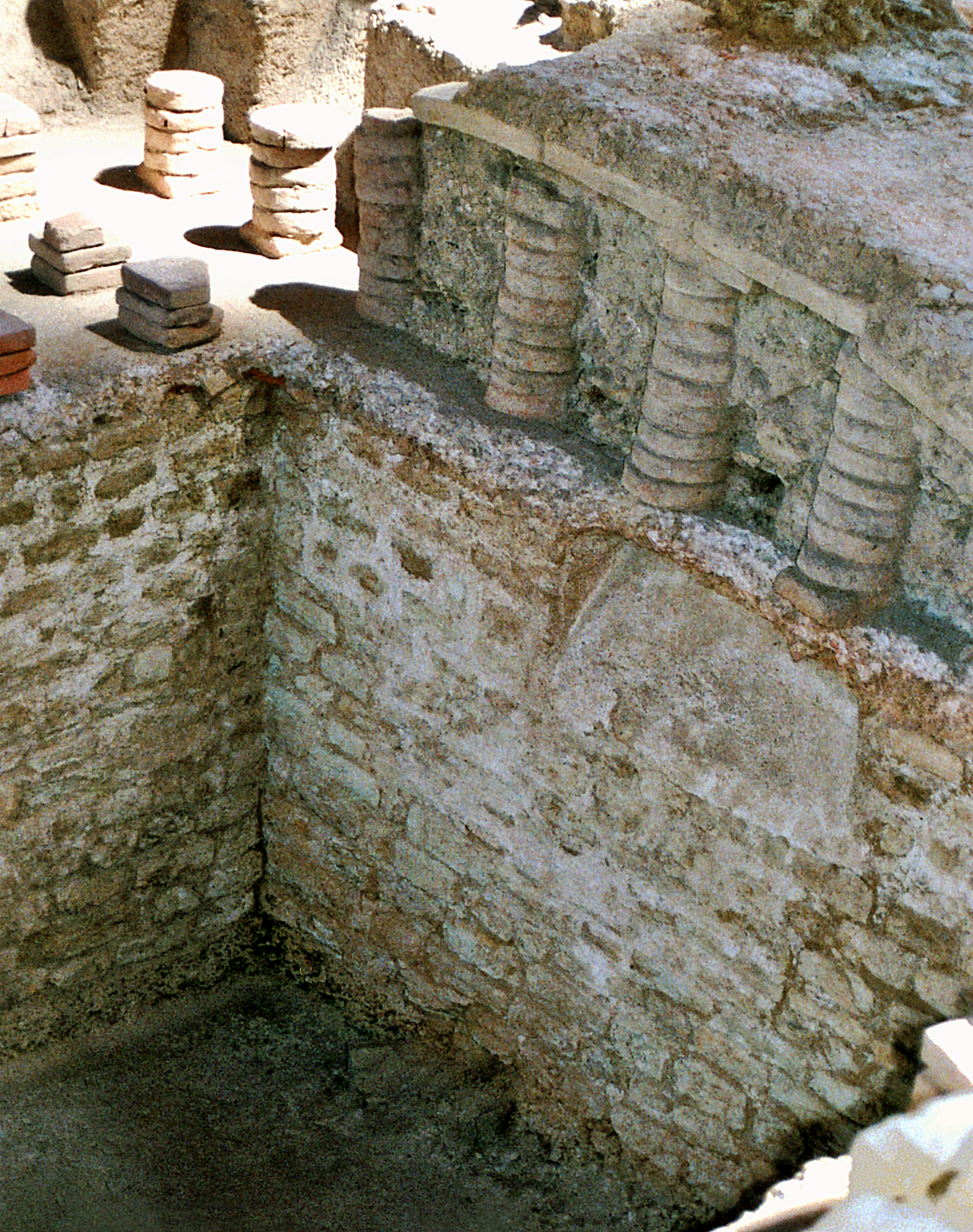 Villa Rustica Ahrweiler: During the excavation of exposed basement of the Haus I (ca. 50 AD) with preserved, sloping sill of the basement window. Above the Hypocaust is from the era of the Mansio (end of the 3rd century to ca. 350 AD).